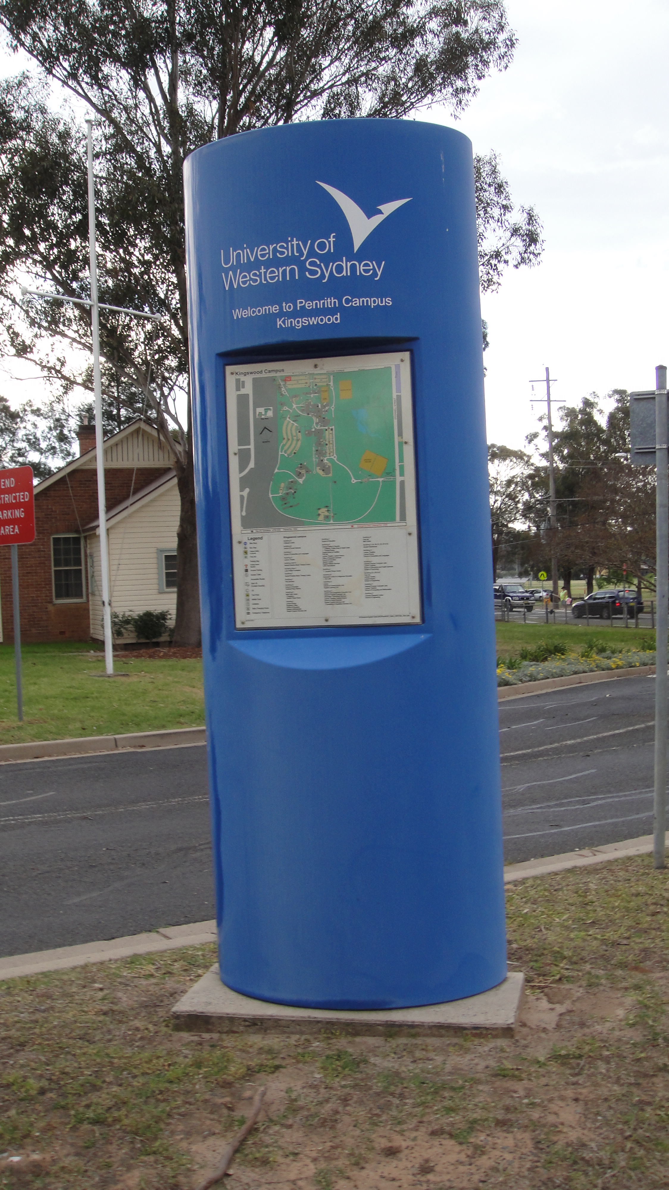 Information Panel at UWS Kingswood campus. An information sign showing the map of the UWS Kingswood campus.